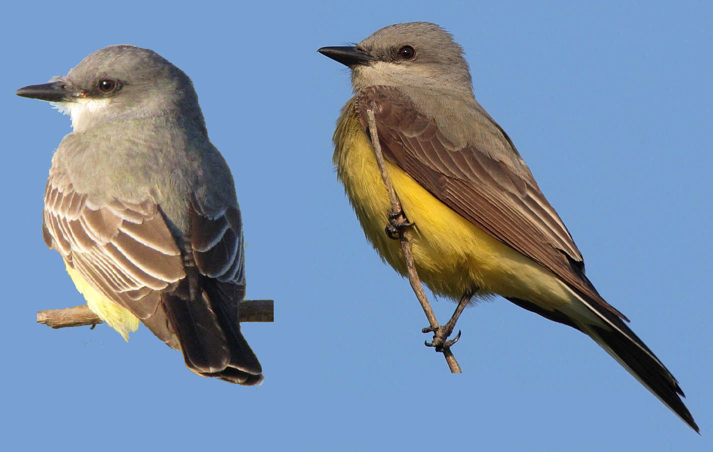 Comparison of Tyrannus vociferans - Cassin's kingbird (on the left) and Tyrannus verticalis - western kingbird (on the right) Identification:National Geographic Birds of North America, 4th edition, page 299 The thin white edge at the tip of the tail feathers is visible on the Cassin's kingbird on the left and the thin white edge on the side of the tail feathers of the western kingbird is visible on the right.